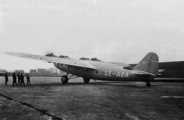 Fokker F.XXII from Swedish airliner ABA